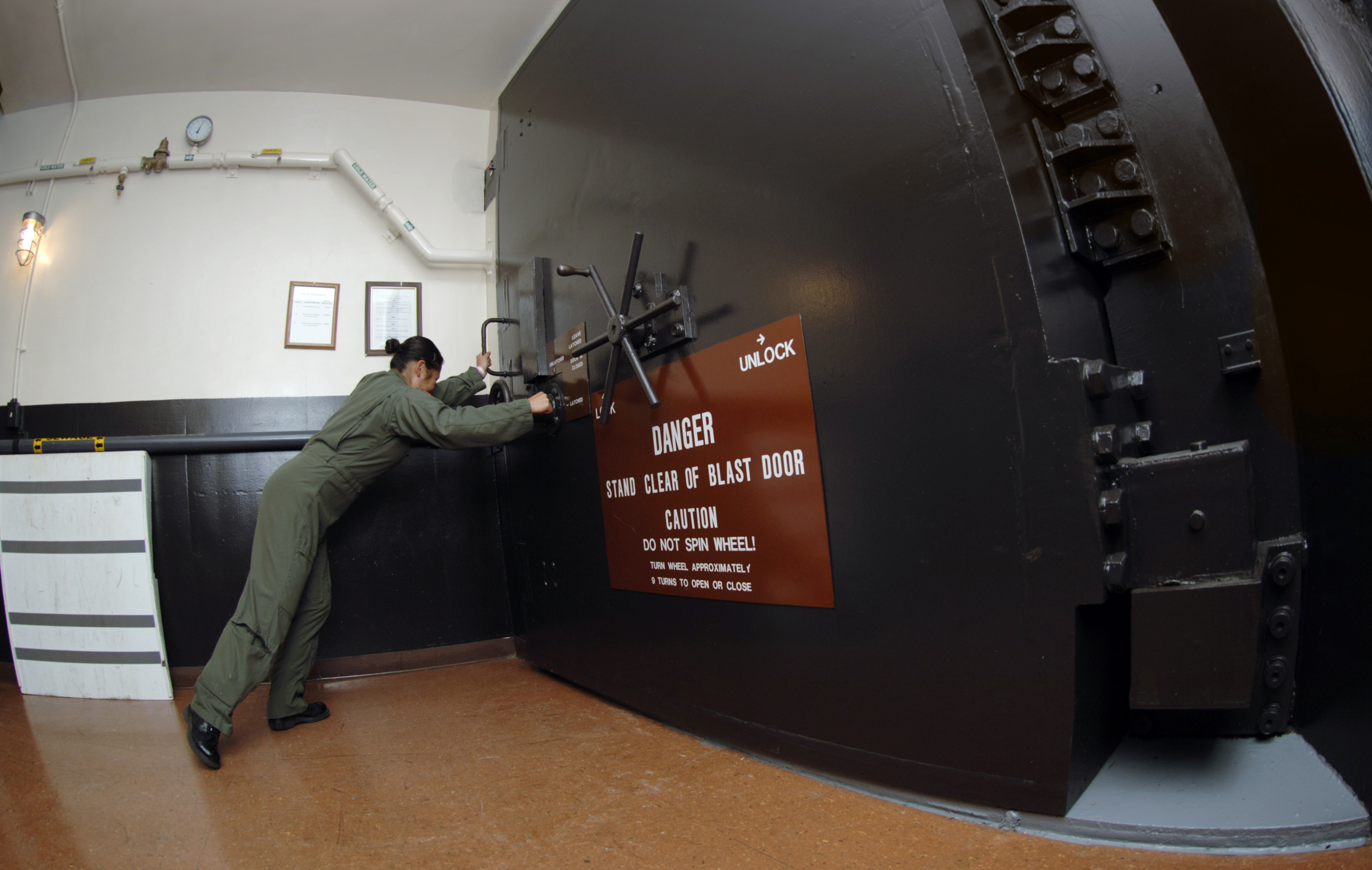 Underground at Minot Air Force Base's Missile Alert Facility B-1, one of 15 91st Space Wing MAFs scattered across northwest North Dakota, 1st Lt. Theresa Lau closes the outer blast door Aug. 18. The 10-ton door permits access to the launch control center where the missile combat crew on duty controls and monitors Minuteman III missiles in dispersed underground launch facilities. Lieutenant Lau is a missile combat crew deputy commander with the 740th Missile Squadron. (U.S. Air Force photo/Master Sgt. Lance Cheung)